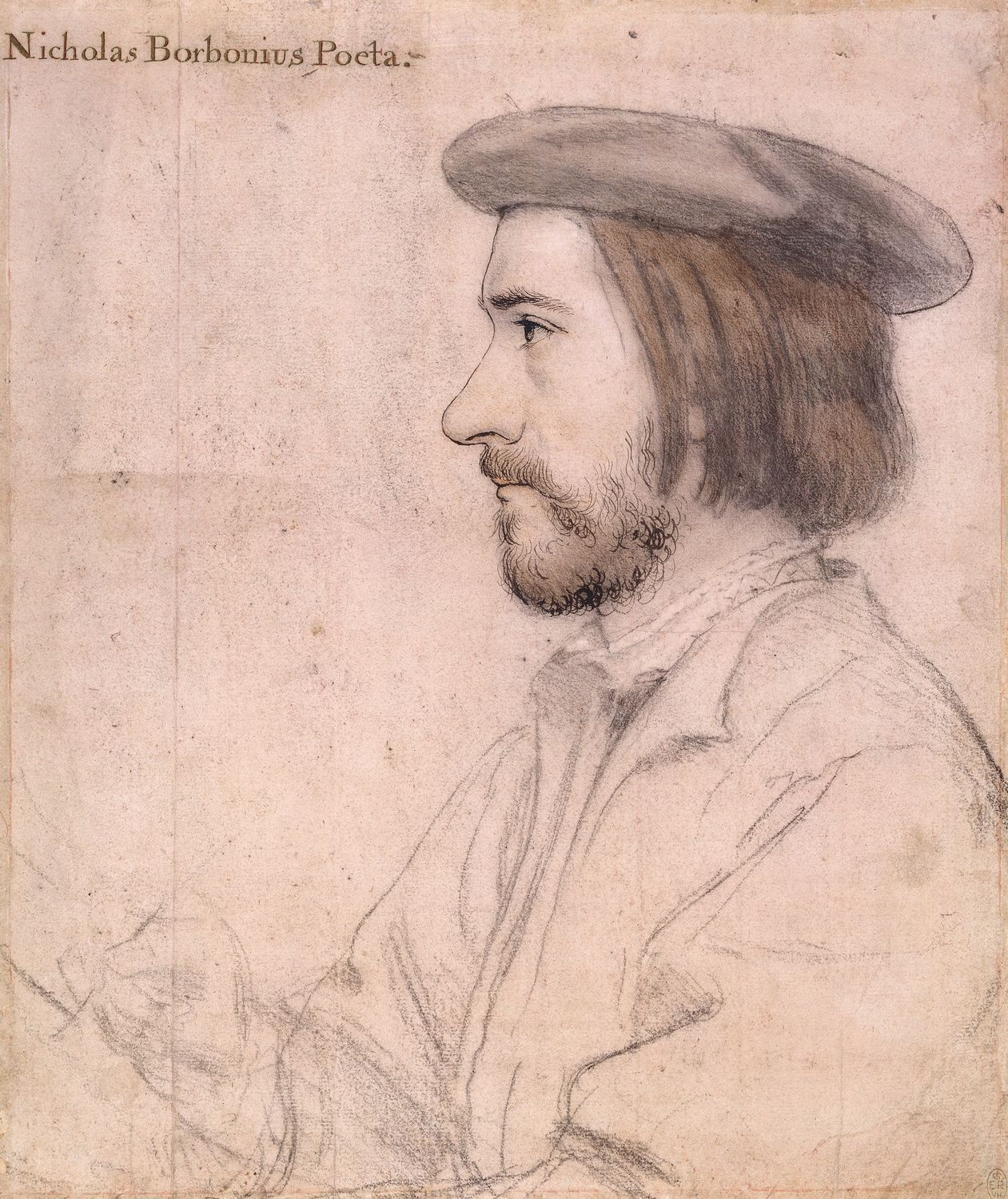 Portrait of Nicolas Bourbon. Black and coloured chalks, pen and ink on pink-primed paper, 38.4 × 28.3 cm, Royal Collection, Windsor Castle. The French poet Nicolas Bourbon (1503–after 1550) met Holbein when the former came to England in 1535 after being imprisoned in France for supporting religious reform. He was welcomed and helped in England by Anne Boleyn, a reformist and a patron of Holbein. This is a preparatory drawing for a painting, now lost. Of the painting, Bourbon wrote: "Hans in painting me was greater than Apelles", referring to the famous painter of Greek antiquity (Susan Foister, Holbein in England, London: Tate, 2006, ISBN 1854376454. p. 53).